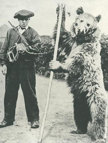 A dancing bear performing in Arundel, Sussex